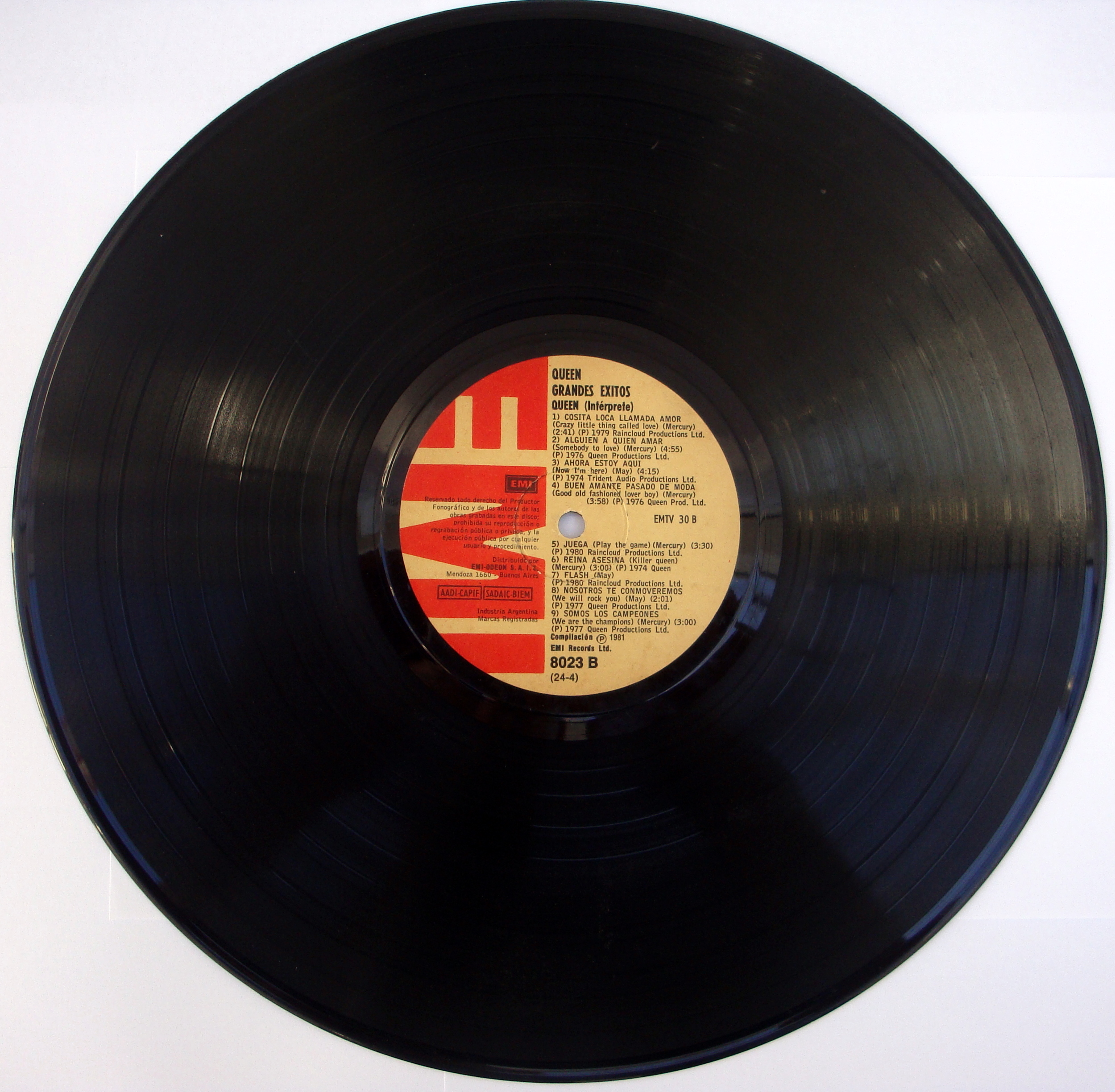 LP Vinyl disc of 33 RPM